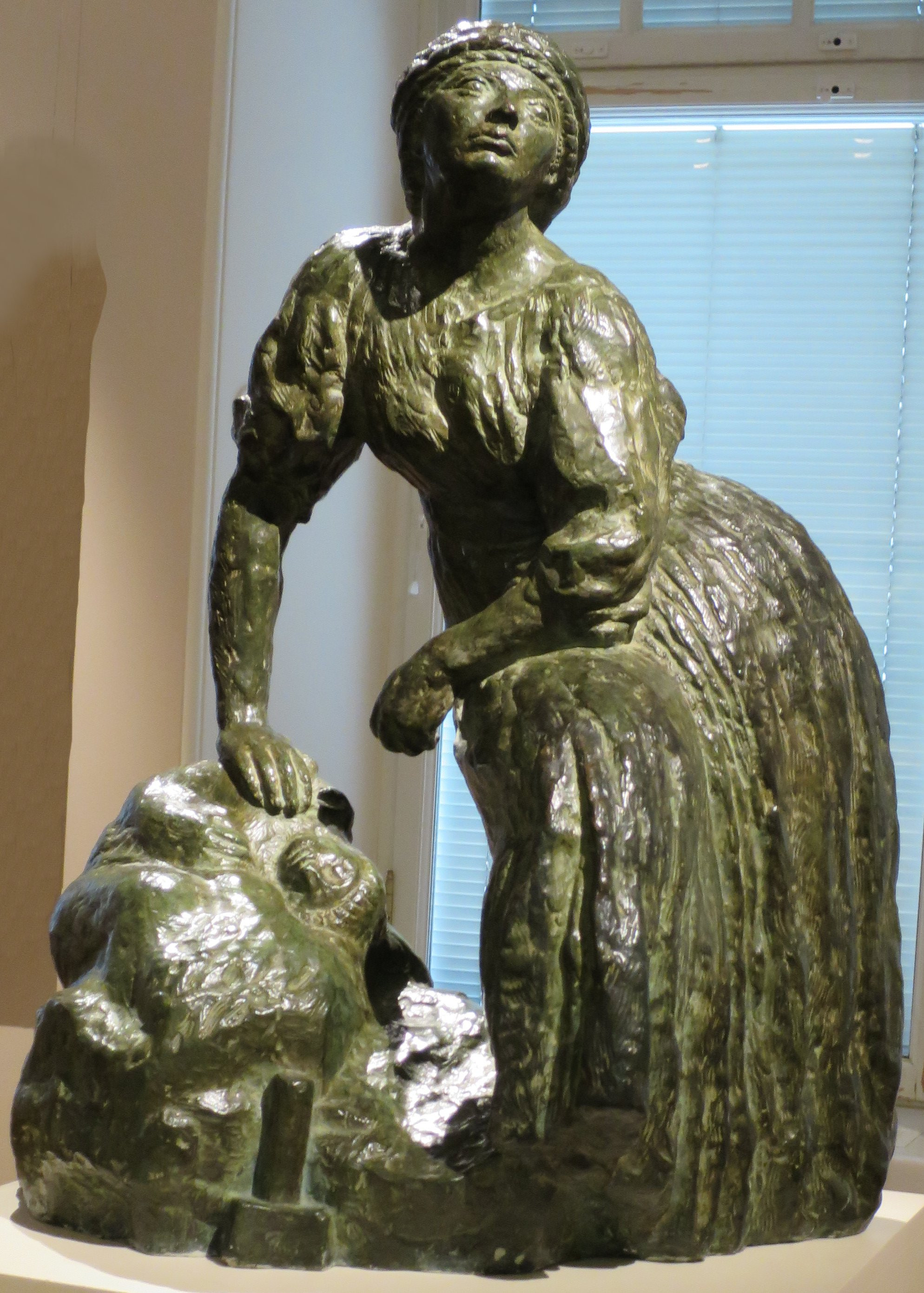 Resting Sculptor by Émile-Antoine Bourdelle, 1905-8, bronze, Pushkin Museum